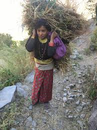 सुदूपश्चिमका महिलाको अवस्था